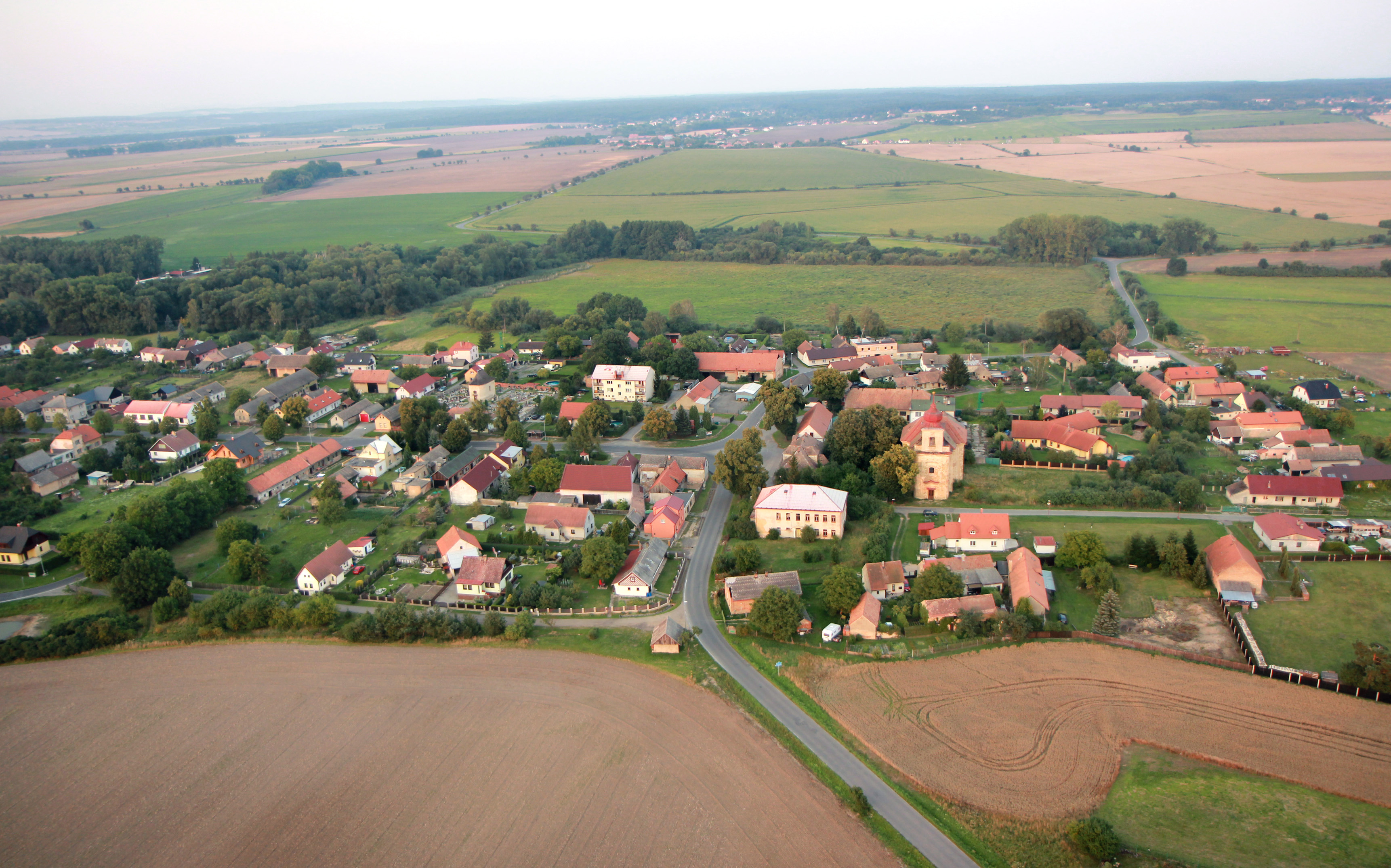 Aerial view of Rejšice, part of Smilovice village, Czech Republic